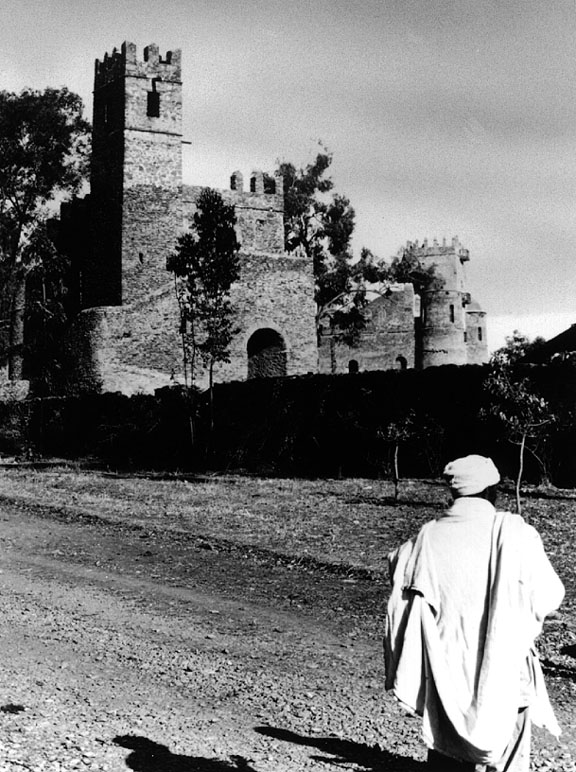 The castle of Emperor Yohannis I (1667-82) in Gondar